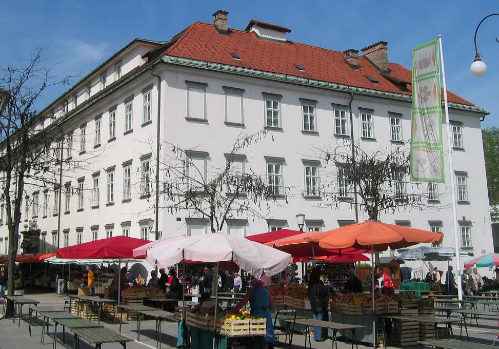 Ljubljana Seminary (in front the Vodnik square market) author:Ziga 06:14, 26 April 2006 (UTC)